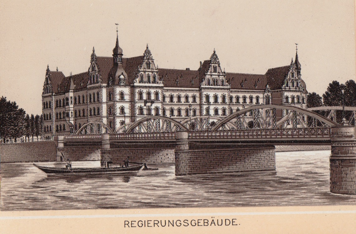 Government Building Wrocław (Breslau), 1885 ca.